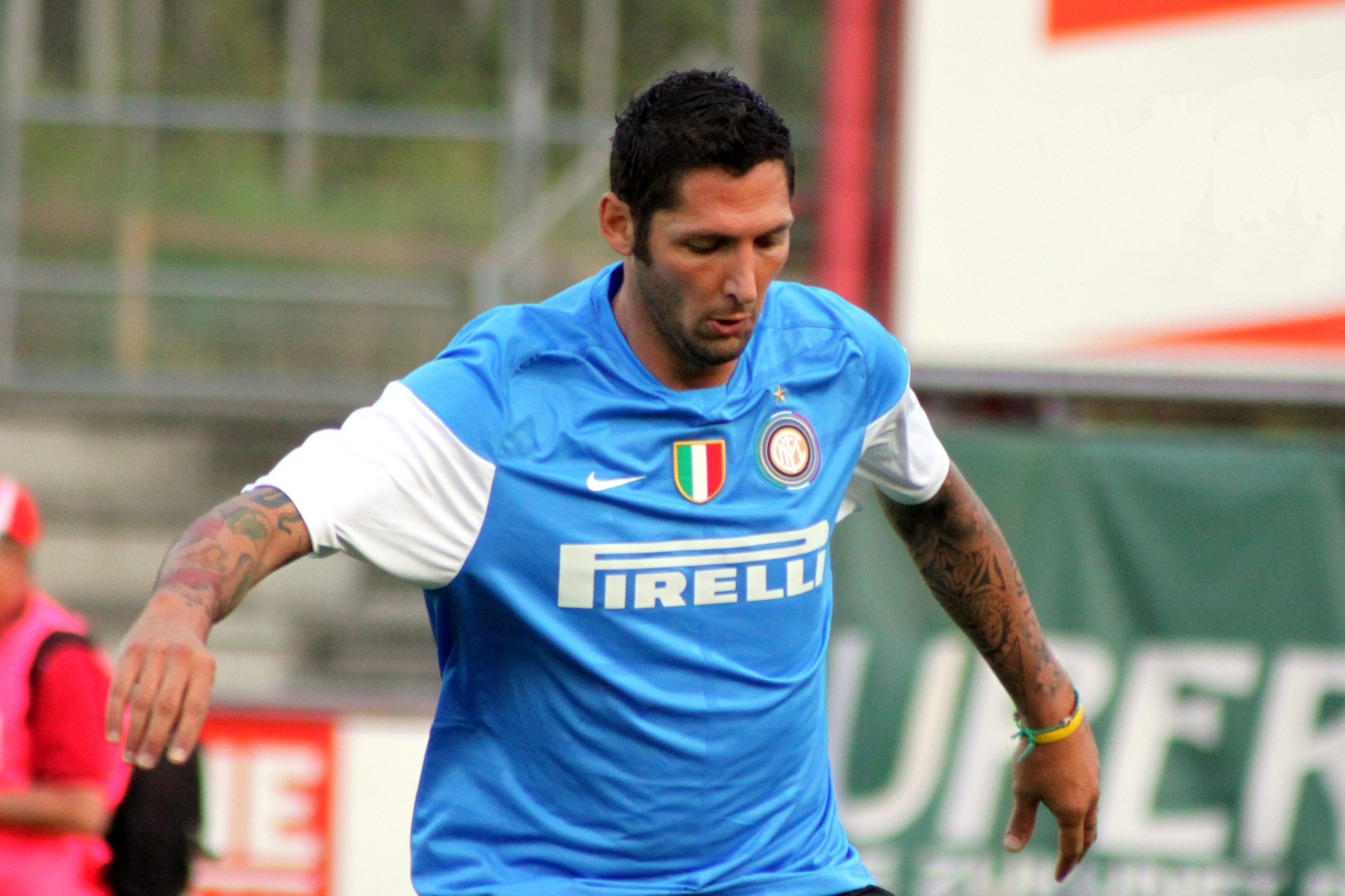 Marco Materazzi - F.C. Internazionale Milano.